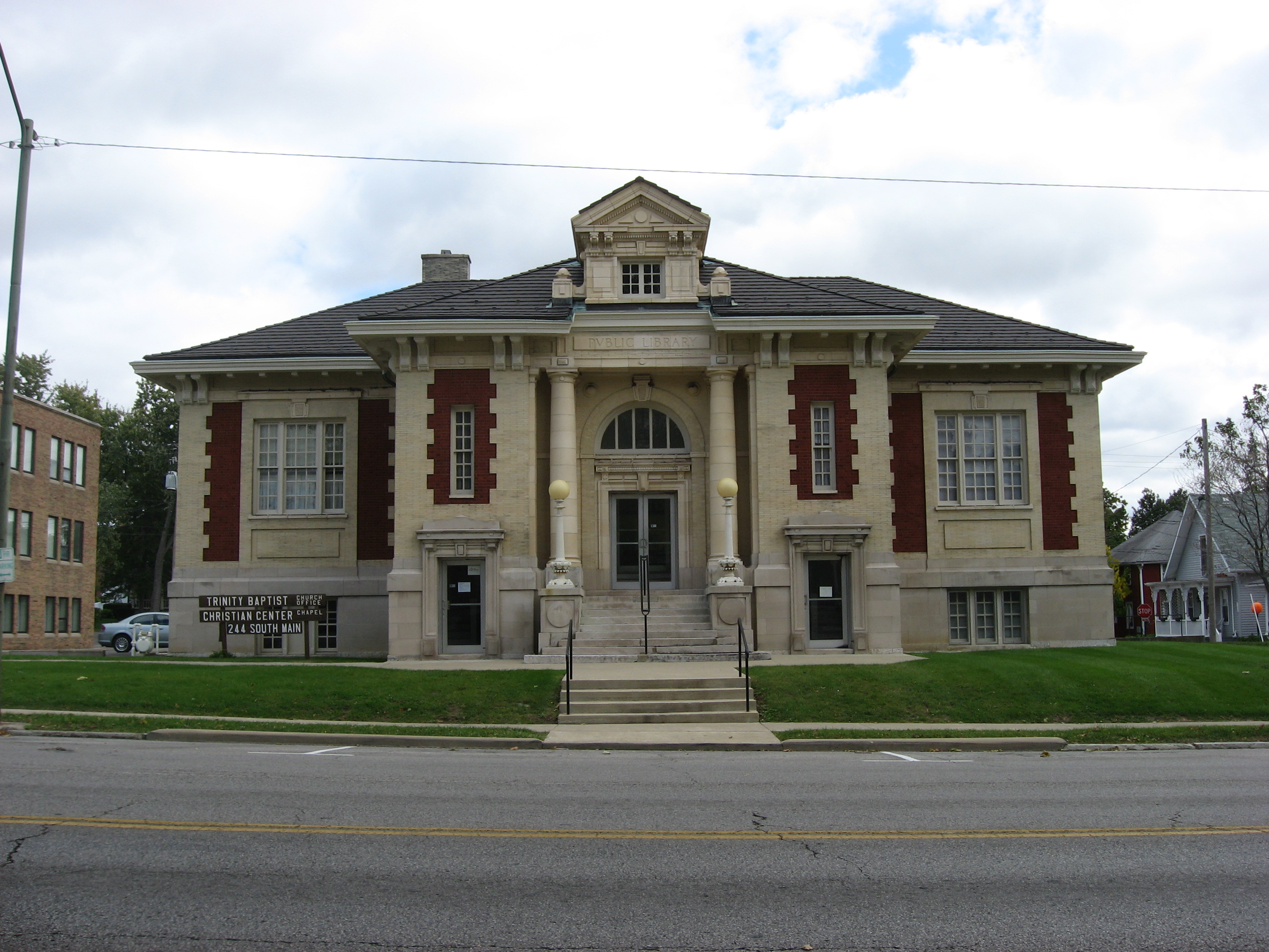 Front of the former Marion Public Library, located at 244 S. Main Street (State Routes 4/309/423) in Marion, Ohio, United States. Built as a Carnegie library, the building is now occupied by the Trinity Baptist Christian Center.